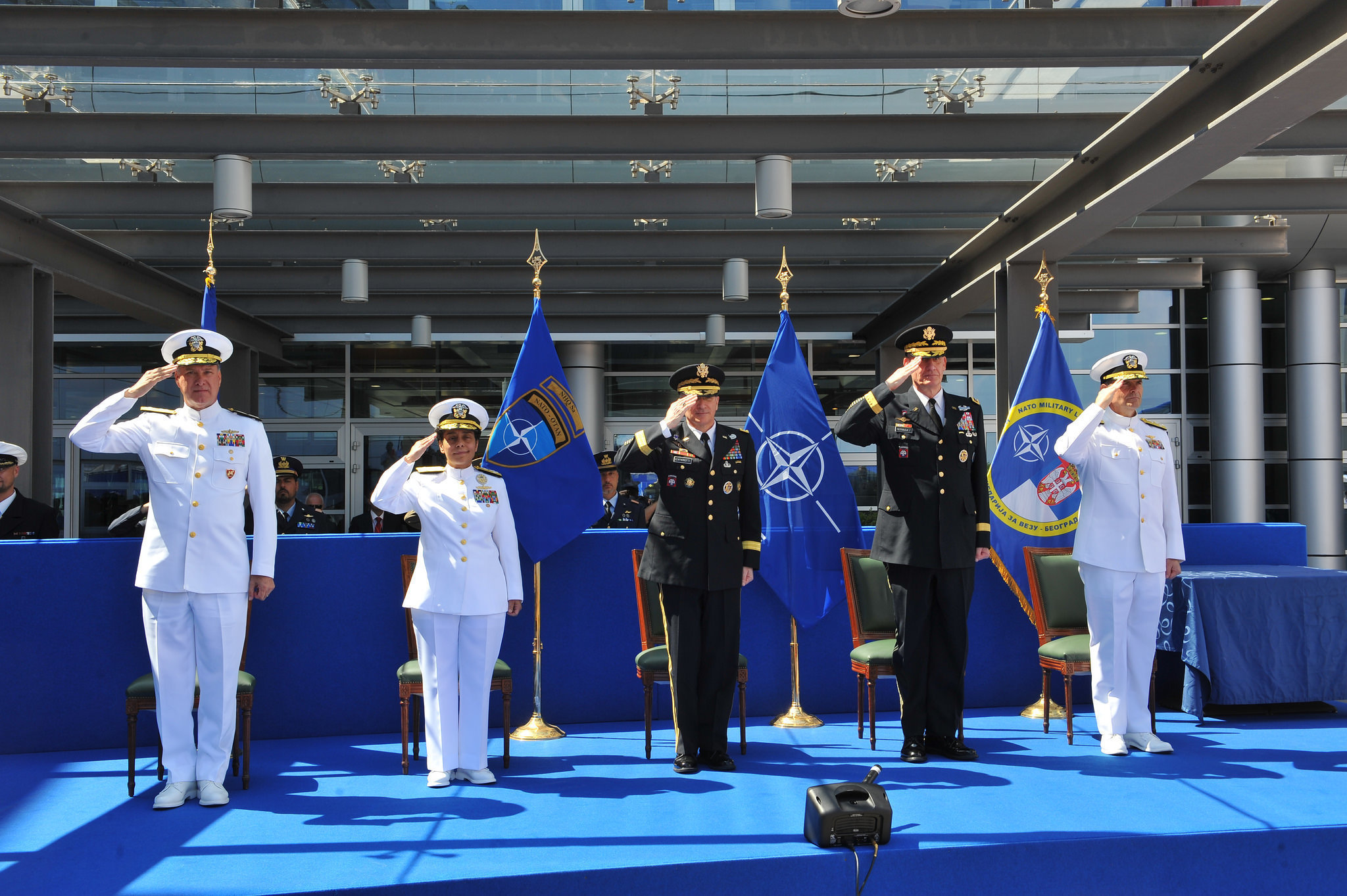 U.S. Navy Admiral Michelle Howard took command of Allied Joint Force Command Naples during a change of command ceremony in Naples, Italy, June 7, 2016. Howard took the helm from U.S. Navy Admiral Mark Ferguson. From left to right: Admiral Ferguson; Admiral Howard; U.S. Army Gen. Curtis Scaparrotti, Supreme Allied Commander Europe; Gen. David Rodriguez, commander of U.S. Africa Command; Admiral Bill Moran, Vice Chief of Naval Operations. (NATO photo by U.S. Army Staff Sgt. Mark Patton)